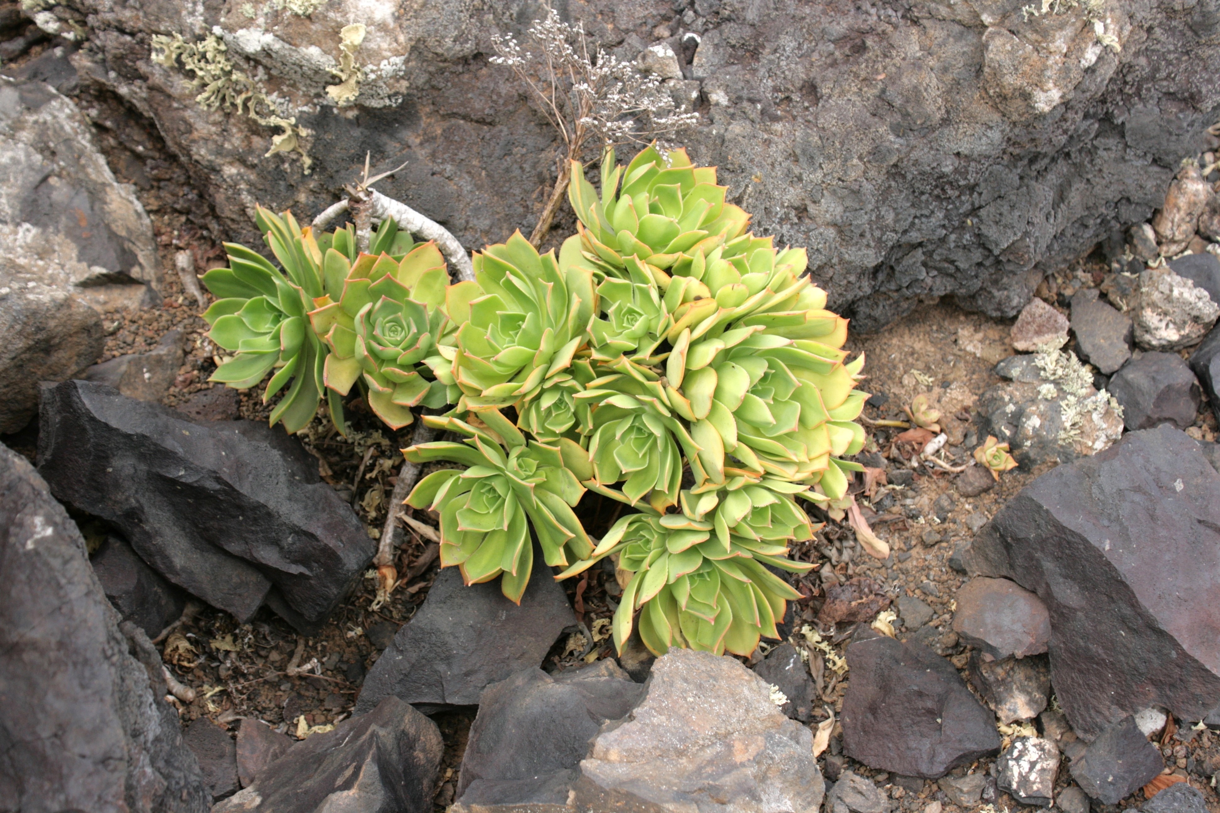 Aeonium lancerottense growing at Montaña Colorada in Tinajo, Lanzarote, Canary Islands